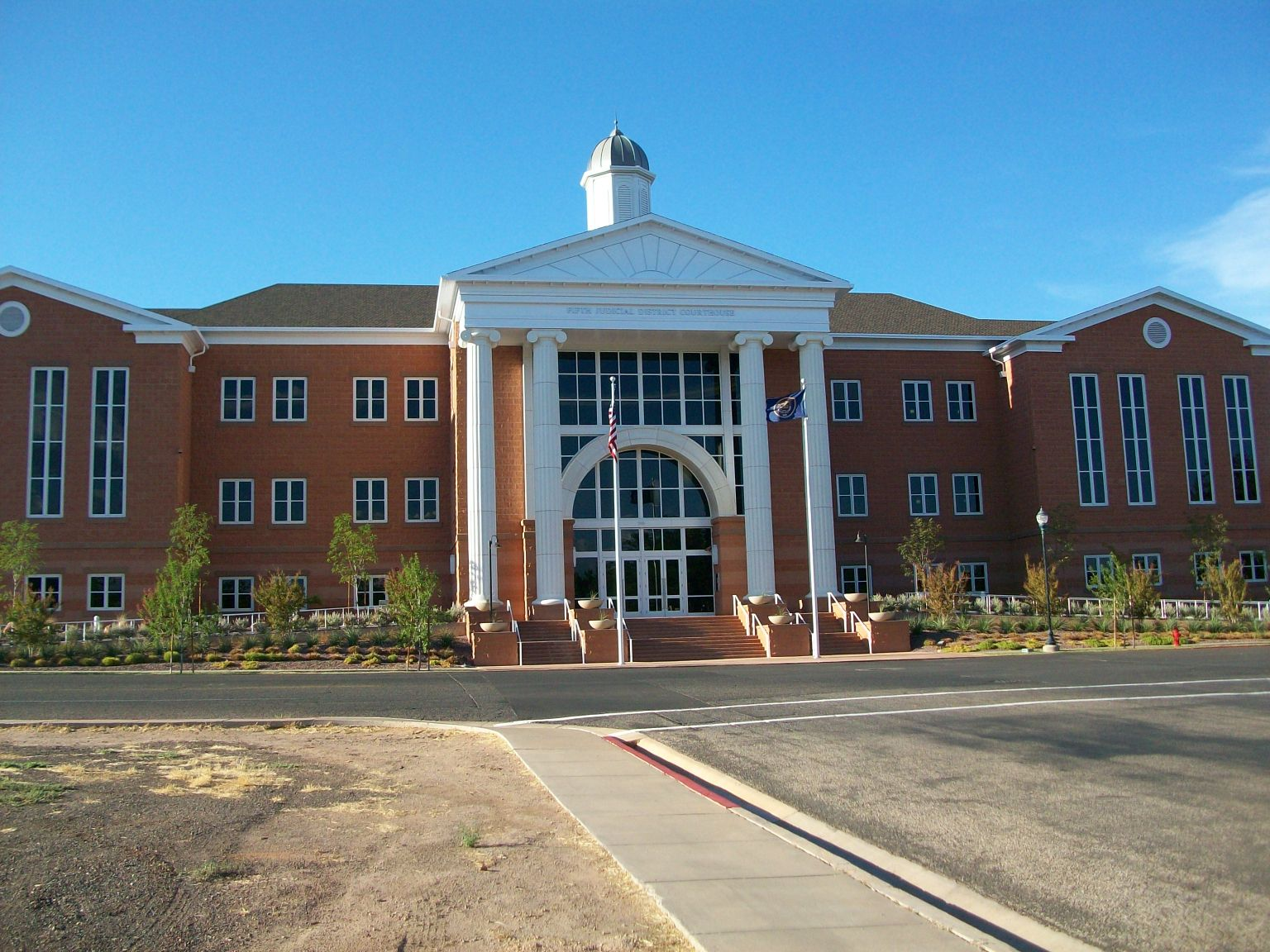 5th District Courthouse on Tabernacle Street, St George, Utah